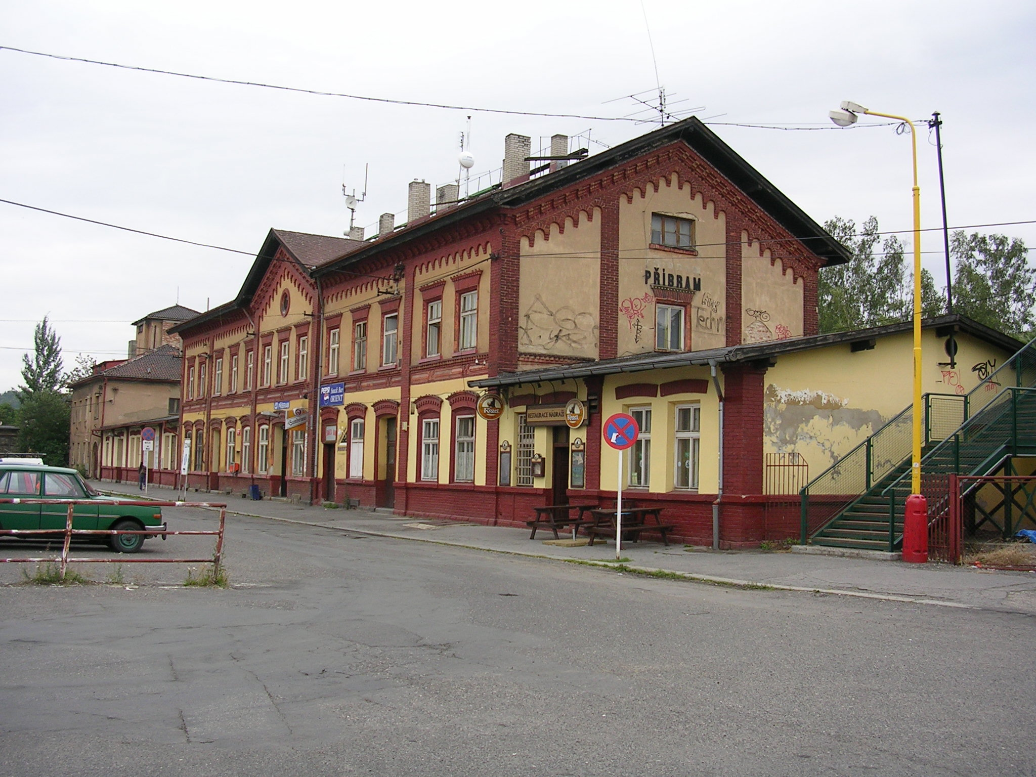 Train station Příbram, the Czech Republic.